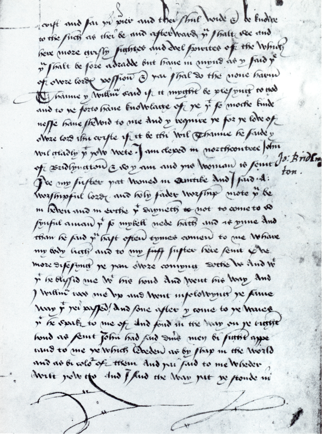 Folio 134r of MS Royal 17 B xliii at British Library, showing an excerpt of a 15th-century Middle English prose text of The Vision of William of Stranton. The shown text continues the sentence And þerfore haue þow in thi mynde þe passion of owre lord Jhesu (the transcription has been taken from p. 80 of the cited source): Crist, and sai þi praier and thei shul voide and be knowe to the such as thei be. And afterward þou shalt see and here more grisly sightes and evel spirites of the which þou shalt be sore adradde; but haue in mynd, as y said þe, of owre lordes possion and þai shal do the none harm.